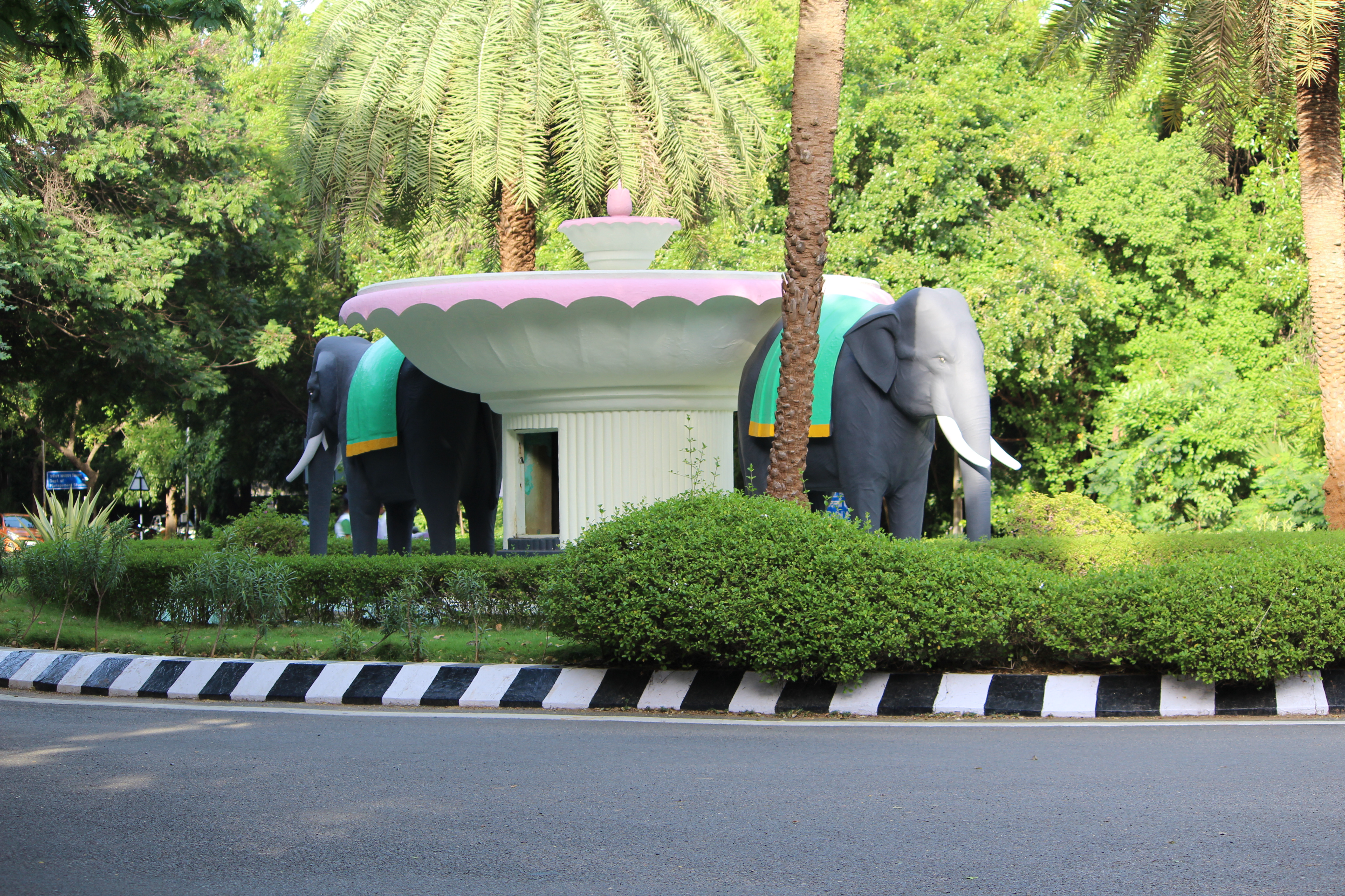 Gajedra Circle IITM